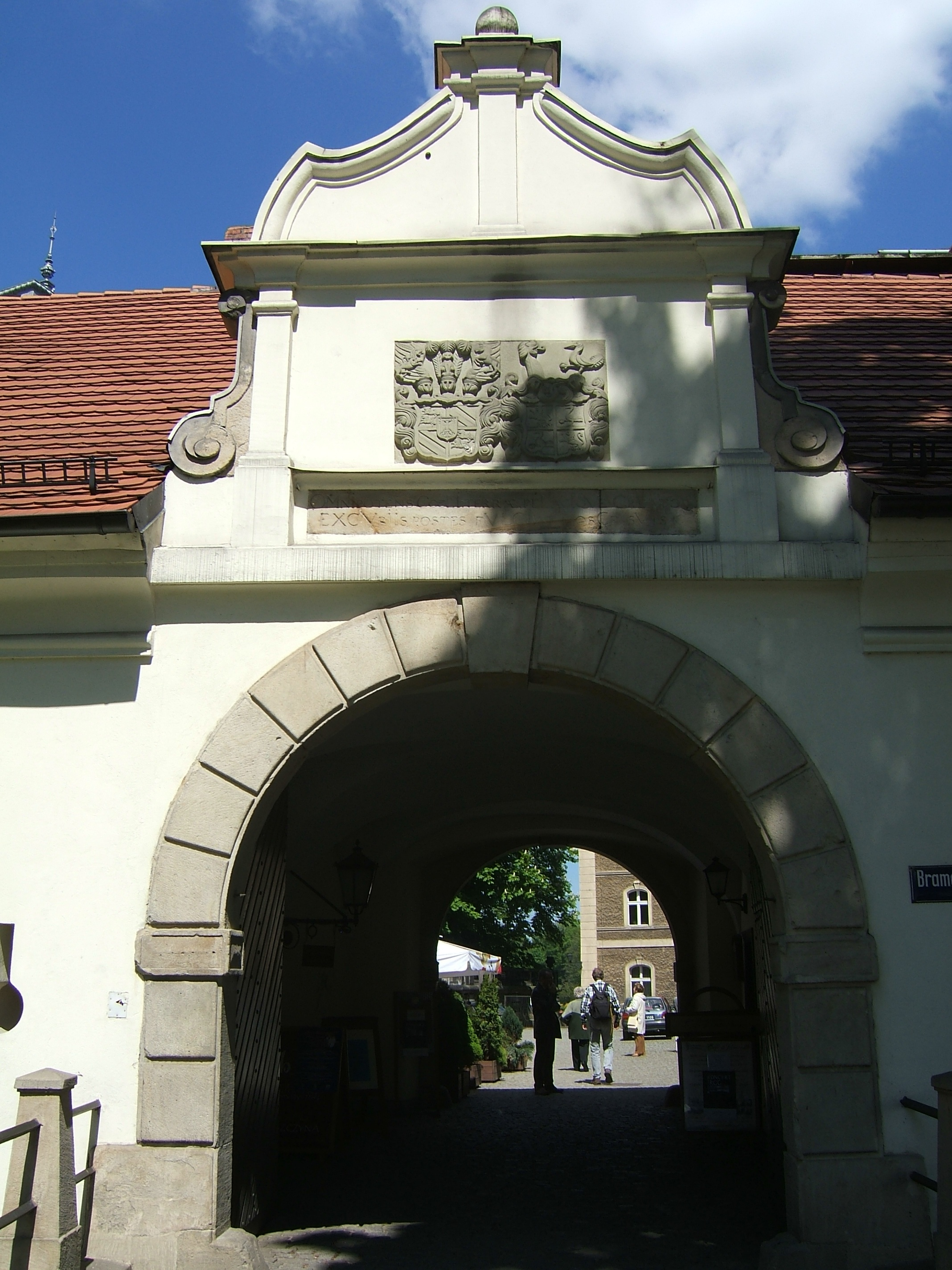 Old gate (1687) of the palace in Pszczyna.